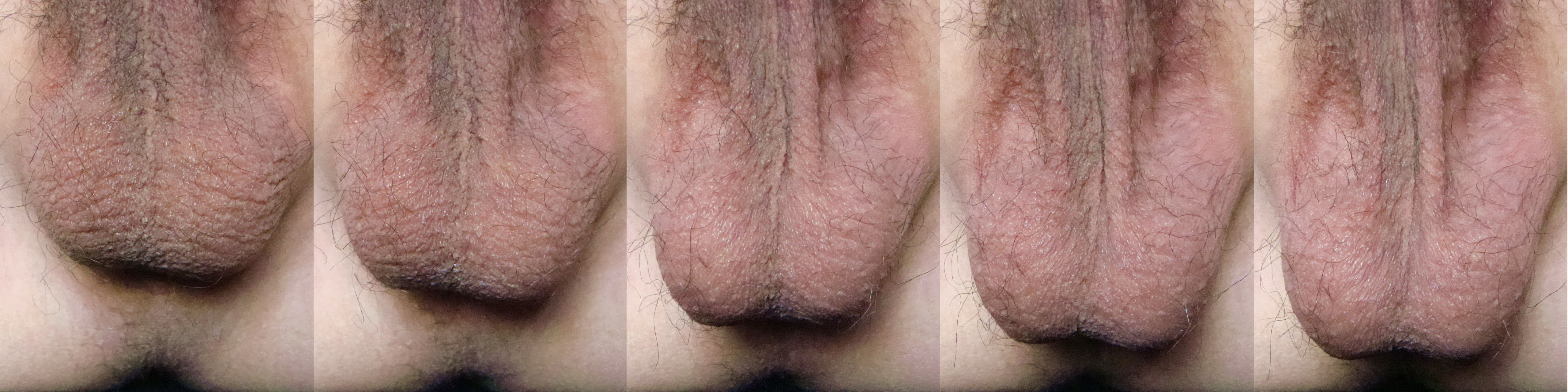 Scrotum from tight to relaxed.